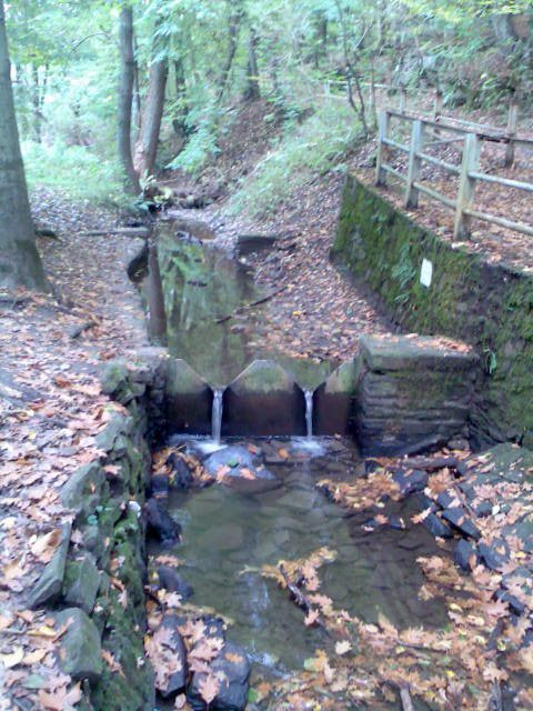 Notch weir flow measurement in a riverine